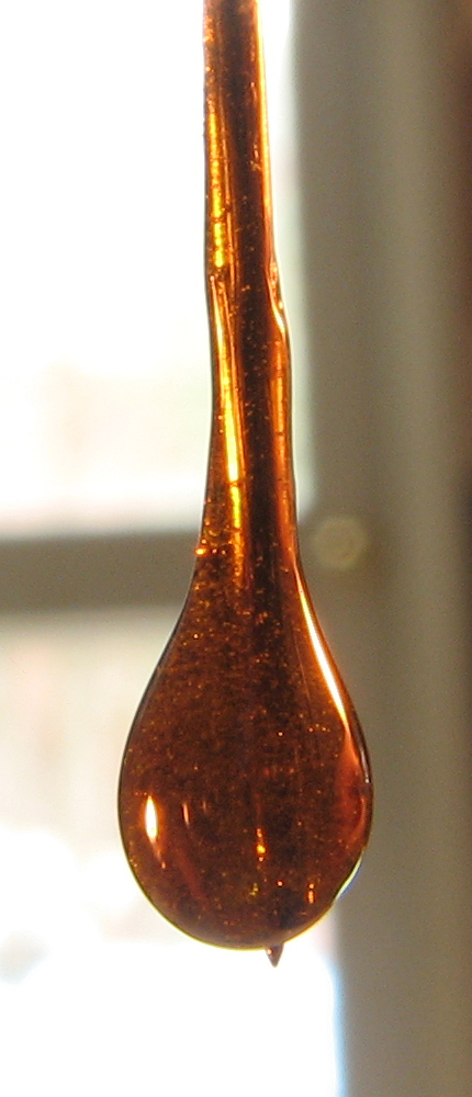 Drop_of_cannabis_oil